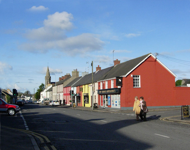 Crossgar, Shops in Downpatrick Street